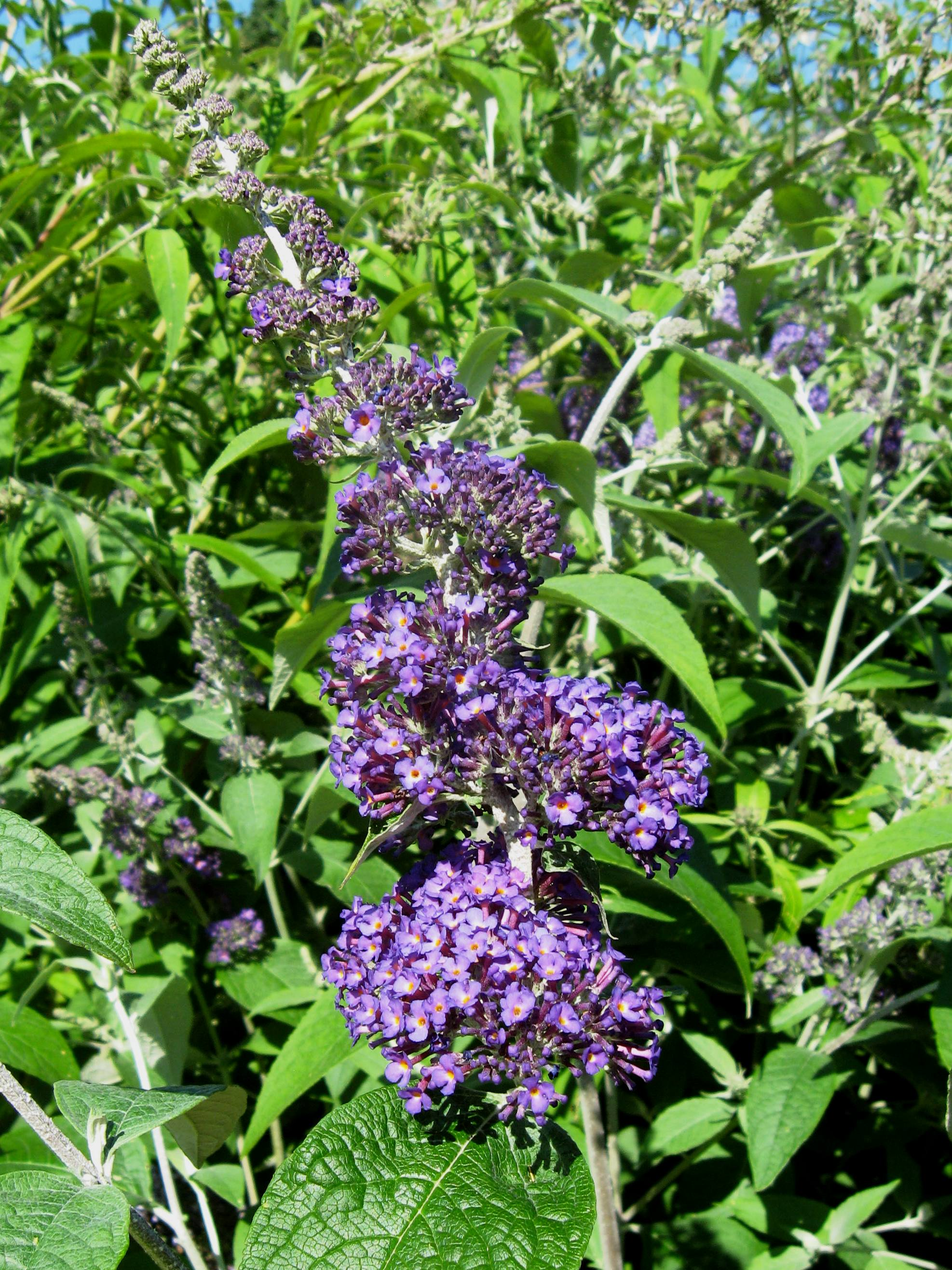 Buddleja davidii 'Persephone', Longstock Park, UK